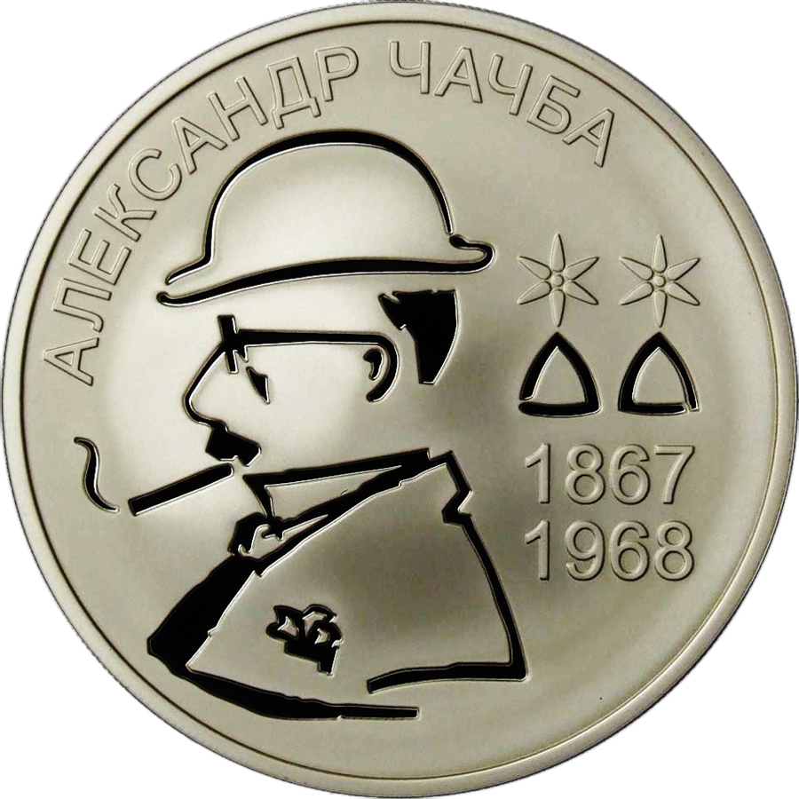 Coin «Aleksandr Chachba», 10 apsars, 2009, Ag925, reverse